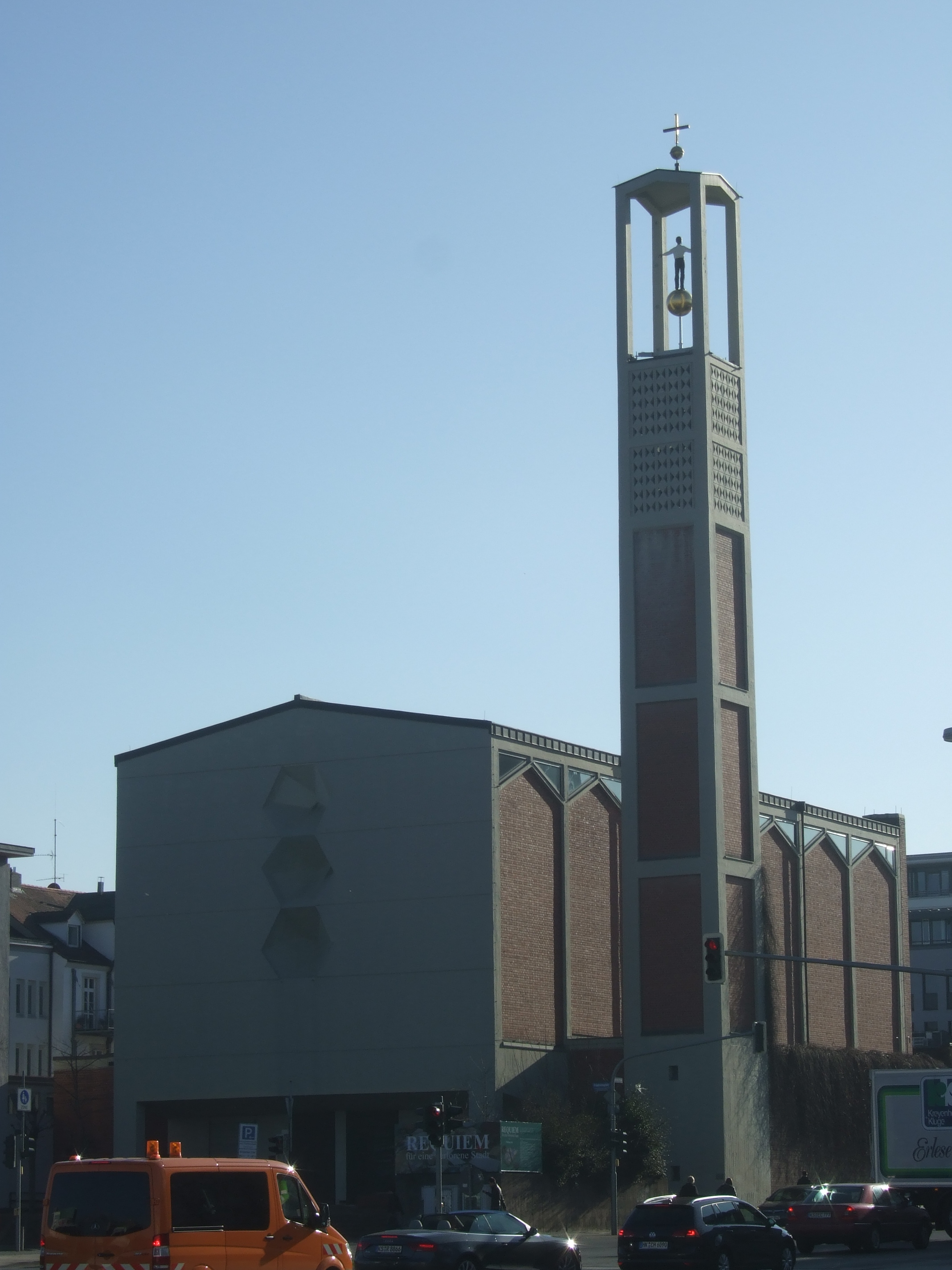 St. Elisabeth Church Kassel